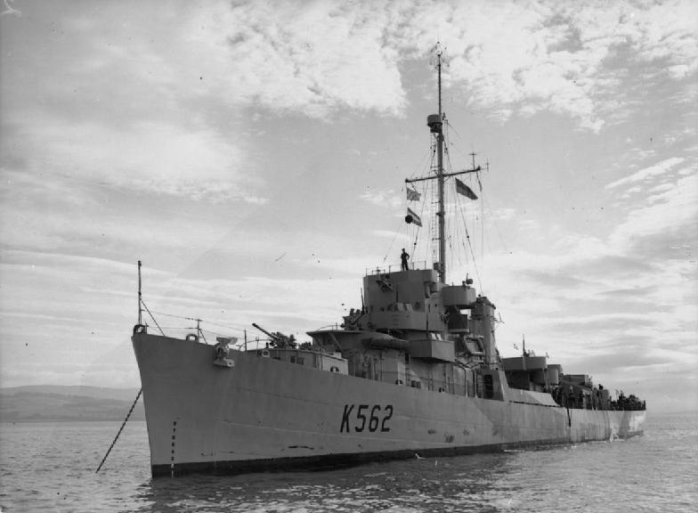 Photograph of Royal Navy Captain class frigate HMS Stockham, anchored at Greenock.